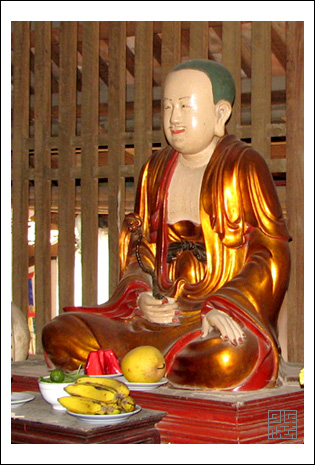 Statue of Vo Ngon Thong in Kien So Pagoda, Gia Lam, Ha Noi, Vietnam